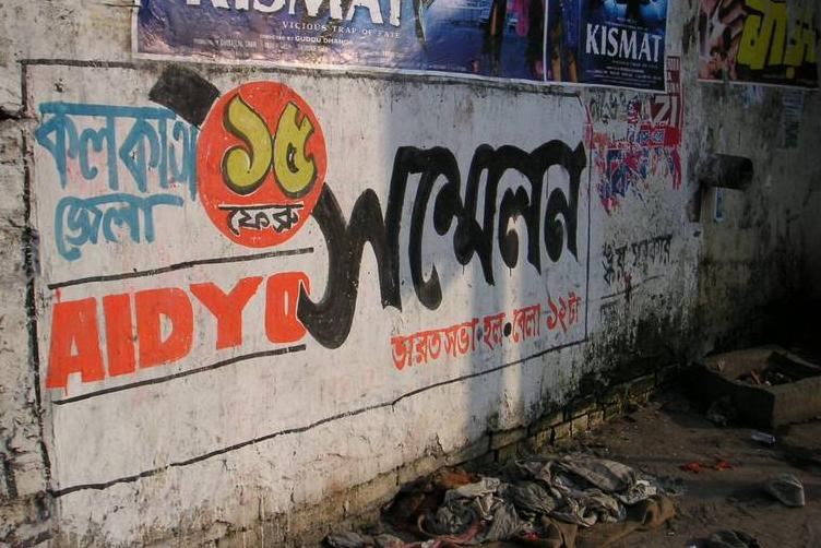 All India Democratic Youth Organization mural in Kolkata. Photo: Soman